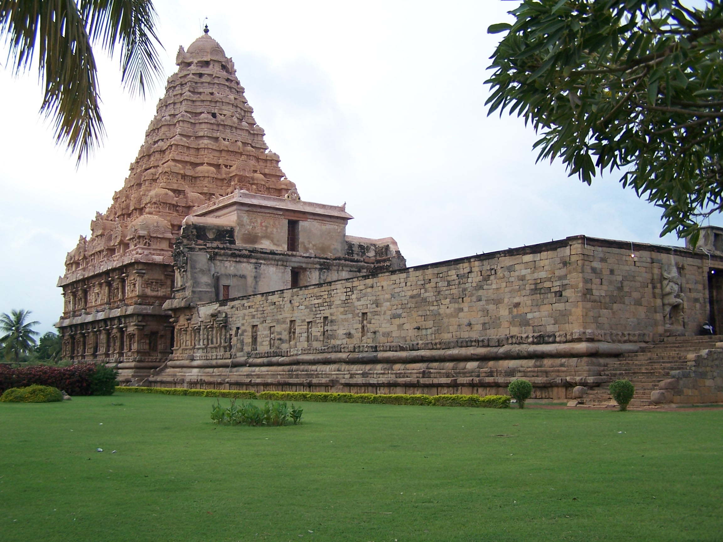 GangaiKondaCholapuram